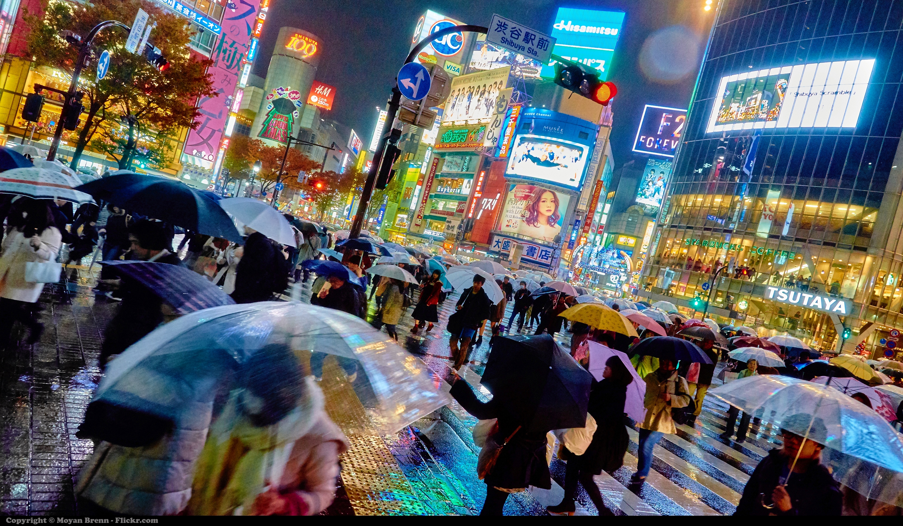 the Shibuya crossing during a rainy evening with many umbrellas